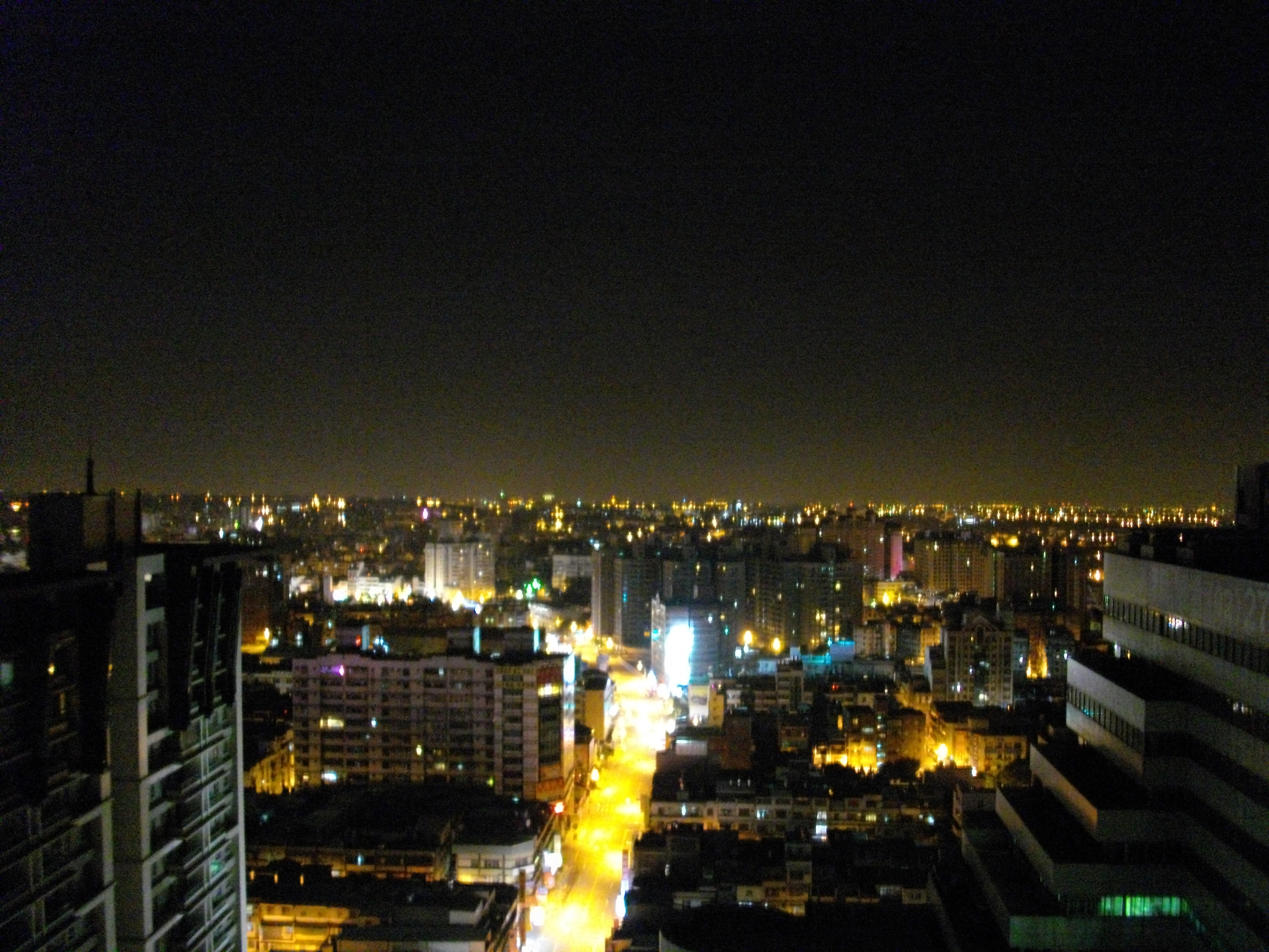 Viewed to the south of Zhongli city, located near SOGO department store